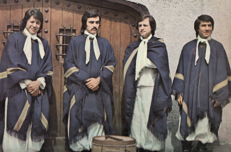 Los Carabajal. Folk Group. Argentina. Kali Carabajal. Oscar Testa, Oscar Evangelista, Kali Carabajal.